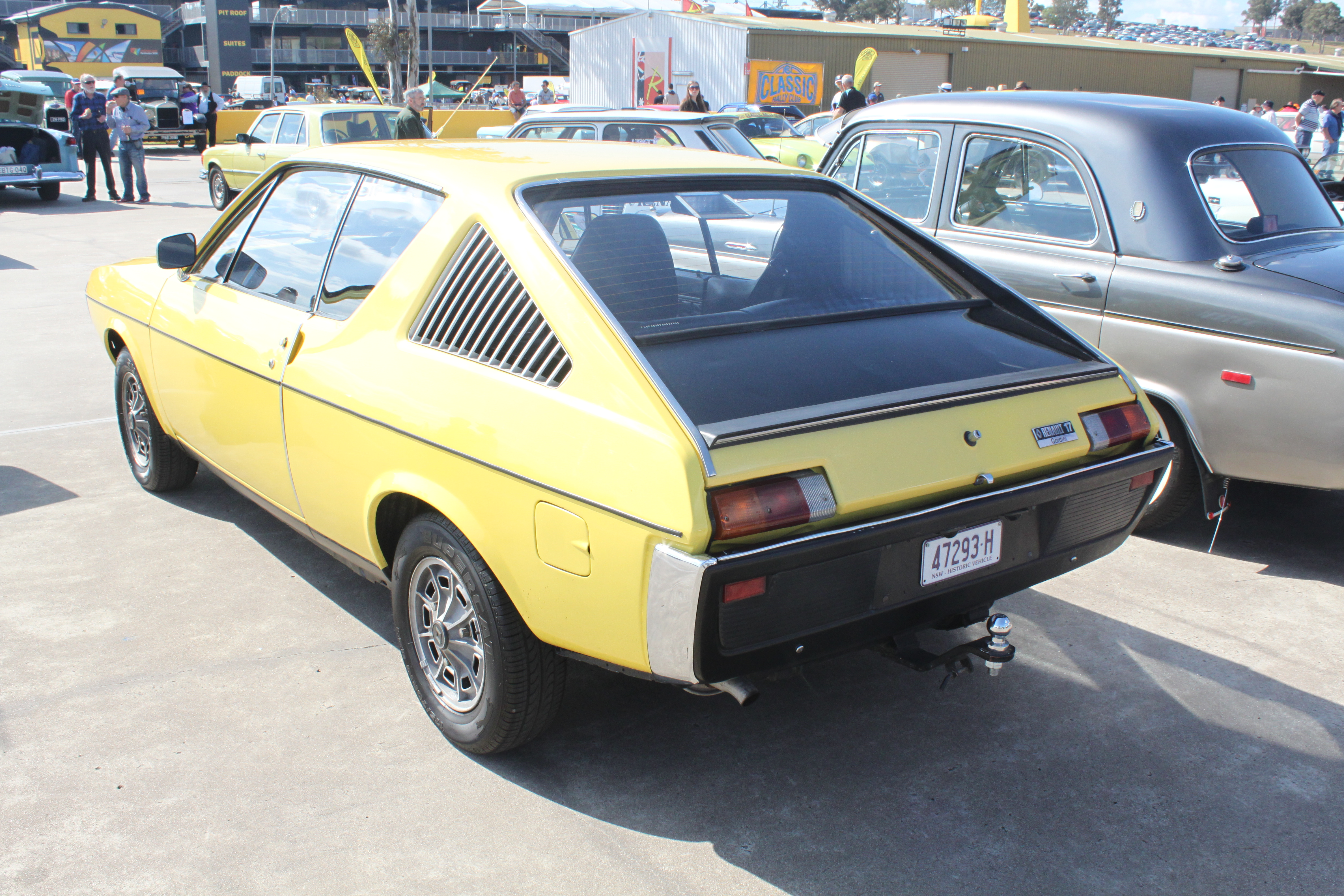 SHannon's Classic, Eastern Creek, NSW August 2015